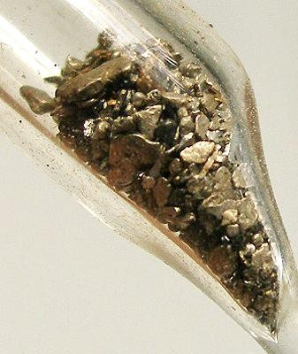 Platinum Locality: Trinity County, California, USA (Locality at ) Size: 4.8 x 0.8 x 0.8 cm (test tube). An old, cork-stoppered test tube with grains of platinum and platinum grains with the rare elements; iridium, palladium, rhenium and osmium. The handwritten label with the test tube says "California" and so we assume it is the Trinity County placer locations but cannot be sure. A vial of platinum grains with rare natural metals. Ex. George Elling Collection.